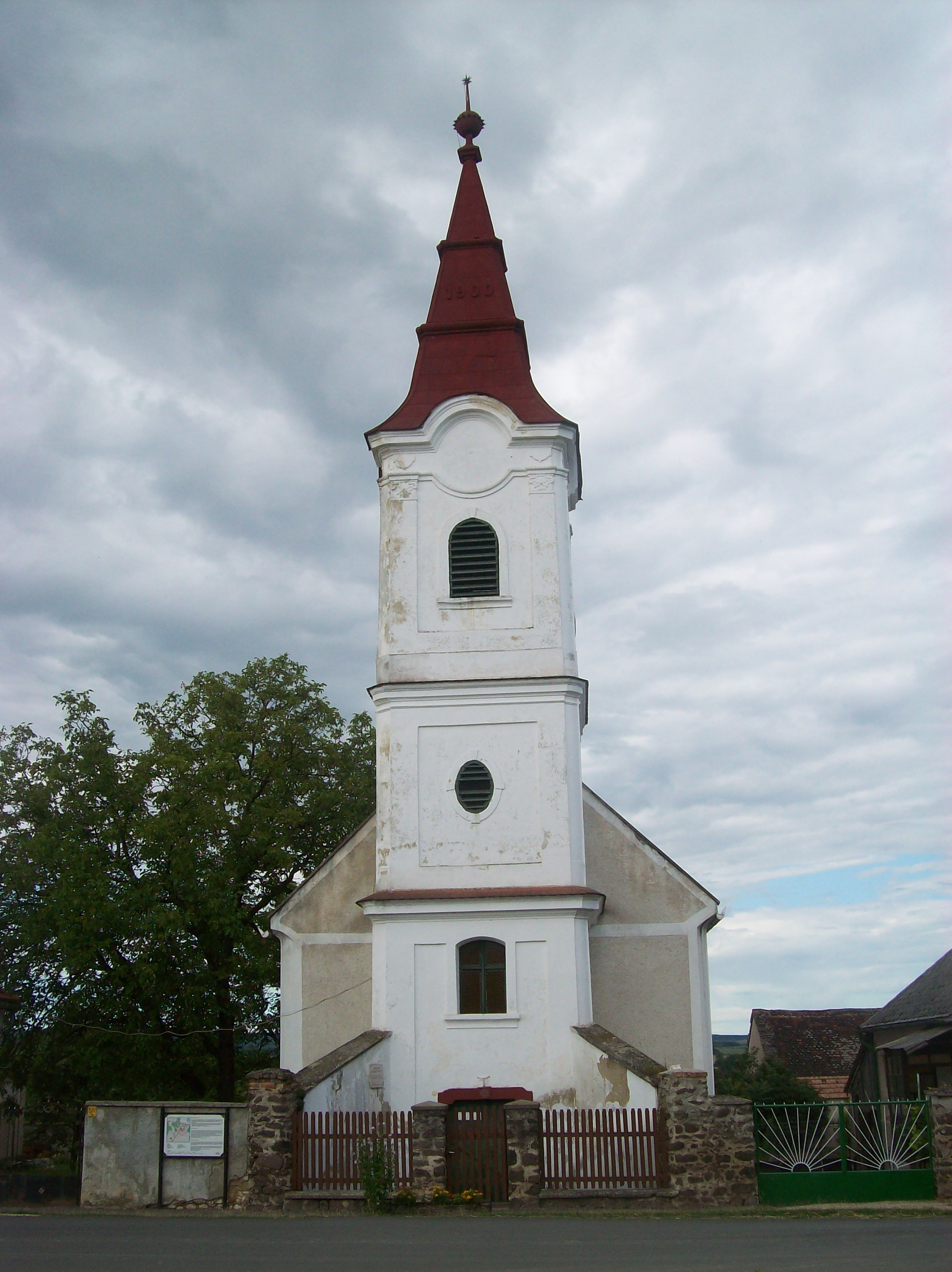 Reformed Church in Nagyvazsony